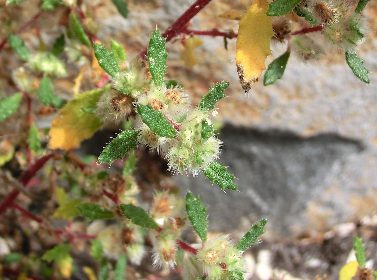 Forsskaolea angustifolia, inflorescence. Tenerife, Puerto de la Cruz, wall at a parking place.